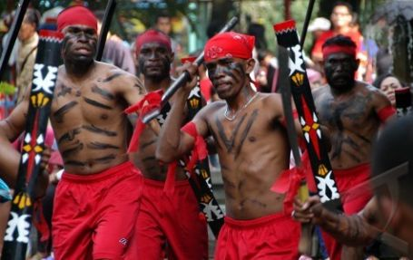 Young Moluccan men performing the traditional Maluku war-dance called Cakalele, Wearing the red garment and traditional Moluccan arms and shield called Parang and Salawaku.